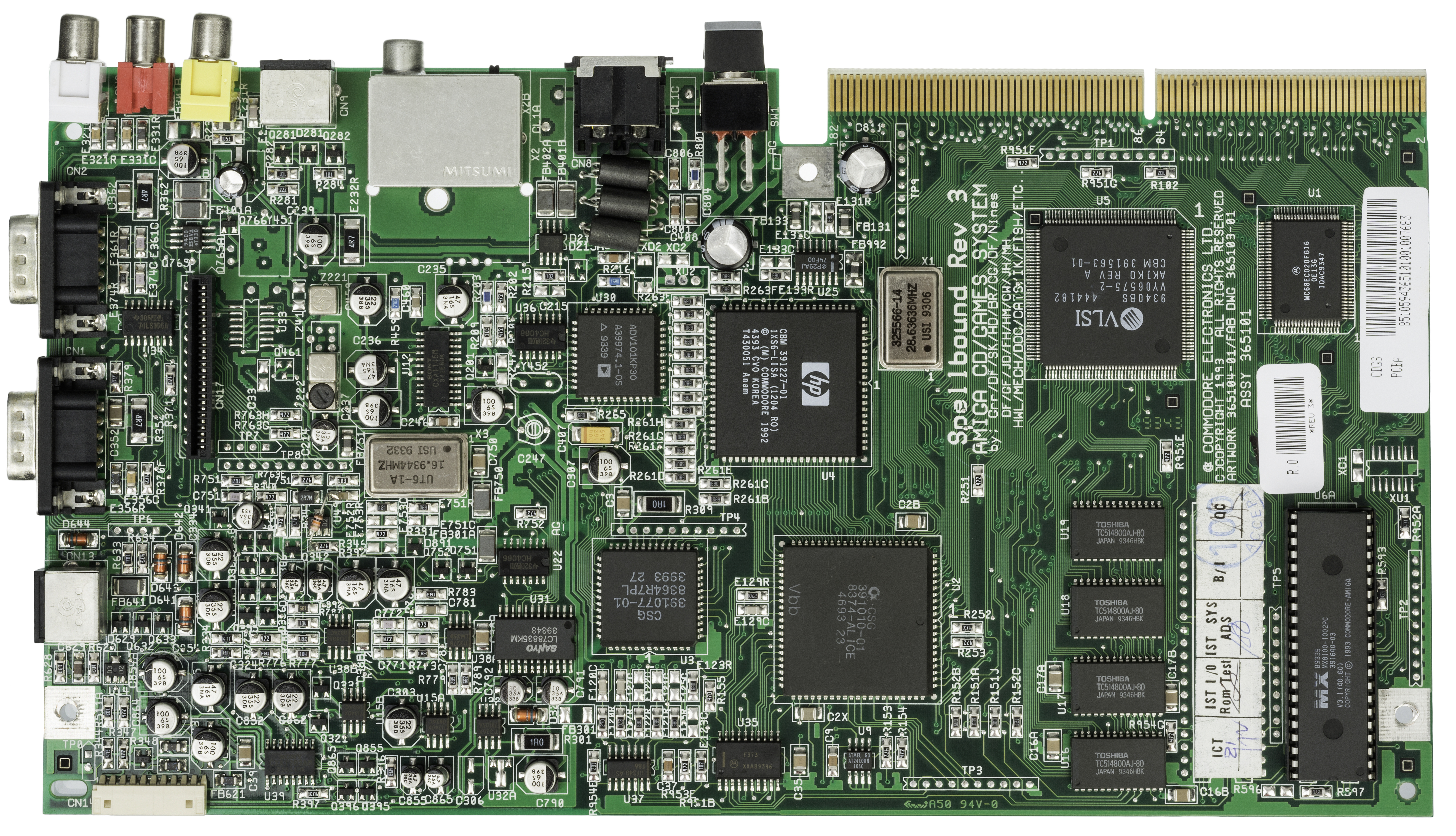 The bottom of the motherboard of Amiga CD32, a 32-bit, CD-ROM based video game console from Commodore. The following is information from the motherboard and its chips: Spellbound Rev 3 AMIGA CD/GAMES SYSTEM by; Grr/DF/SK/HD/BR/CG/DF/Nines HWL/MECH/DOC/CATS/IK/FISH/ETC.. COMMODORE ELECTRONICS LTD. COPYRIGHT 1993 ALL RIGHT RESERVED ARTWORK 365104-01/FAB DWG 365103-01 ASSY 365101 CHIP - TOSHIBA (x4) TC514800AJ-80 JAPAN 9346HBK CHIP - VLSI 9340BS 44182 VY06575-2 AKIKO REV A CBM 391563-01 CHIP - CSG 391077-01 8364R7PL 3993 27 CHIP - ADV101KP30 A39974.A-OS 9339 CHIP - SANYO LC78835KM 39343 OSC - 325566-14 28.63636MHZ USI 9306 OSC - UT6-1A 16.9344MHZ USI 9332 CHIP - HP CBM 391227-01 1XS6-LISA (1204 R0) (M) COMMODORE 1992 4393 CVO KOREA T430051 Anam CHIP - CSG 391010-01 8374-ALICE 4693 23 Vbb CHIP - MOTOROLA MC68EC020FG16 0E13G IQAC9347 CHIP - MX B9335 MX8100-1002PC 391640-03 V3.1 (40.60) COPYRIGHT 1993 COMMODORE-AMIGA